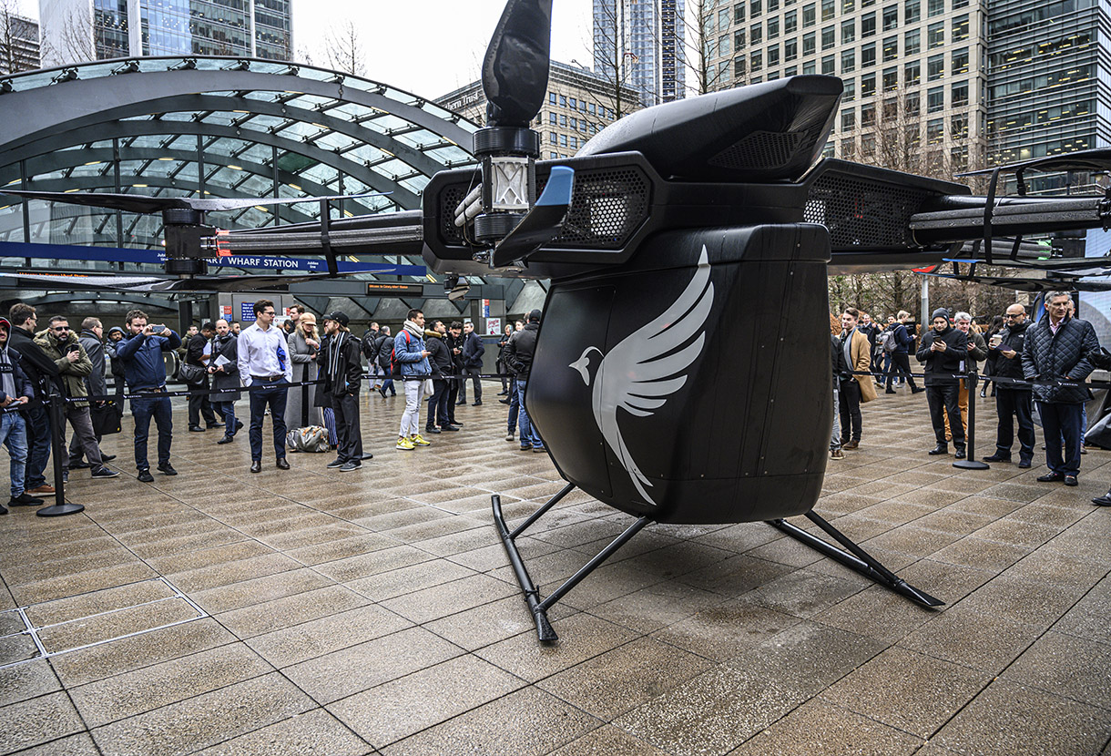 Vertical Aerospace's second prototype, Seraph, outside Canary wharf Tube Station in January 2020